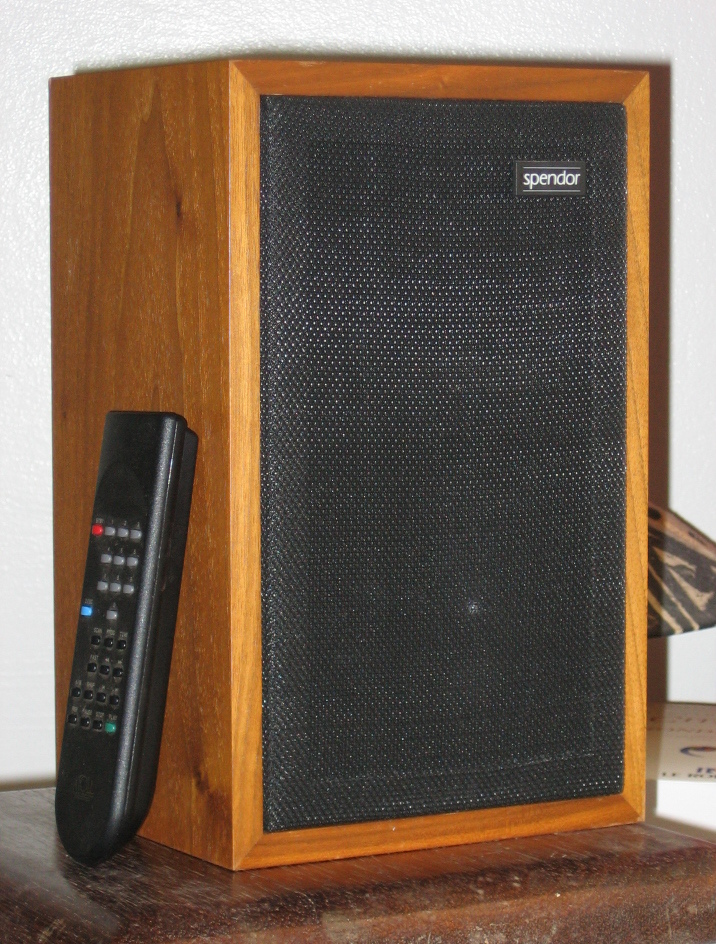 Loudspeaker ls3/5a 11 ohms version of 1998, manufactured by Spendor (U.K.)